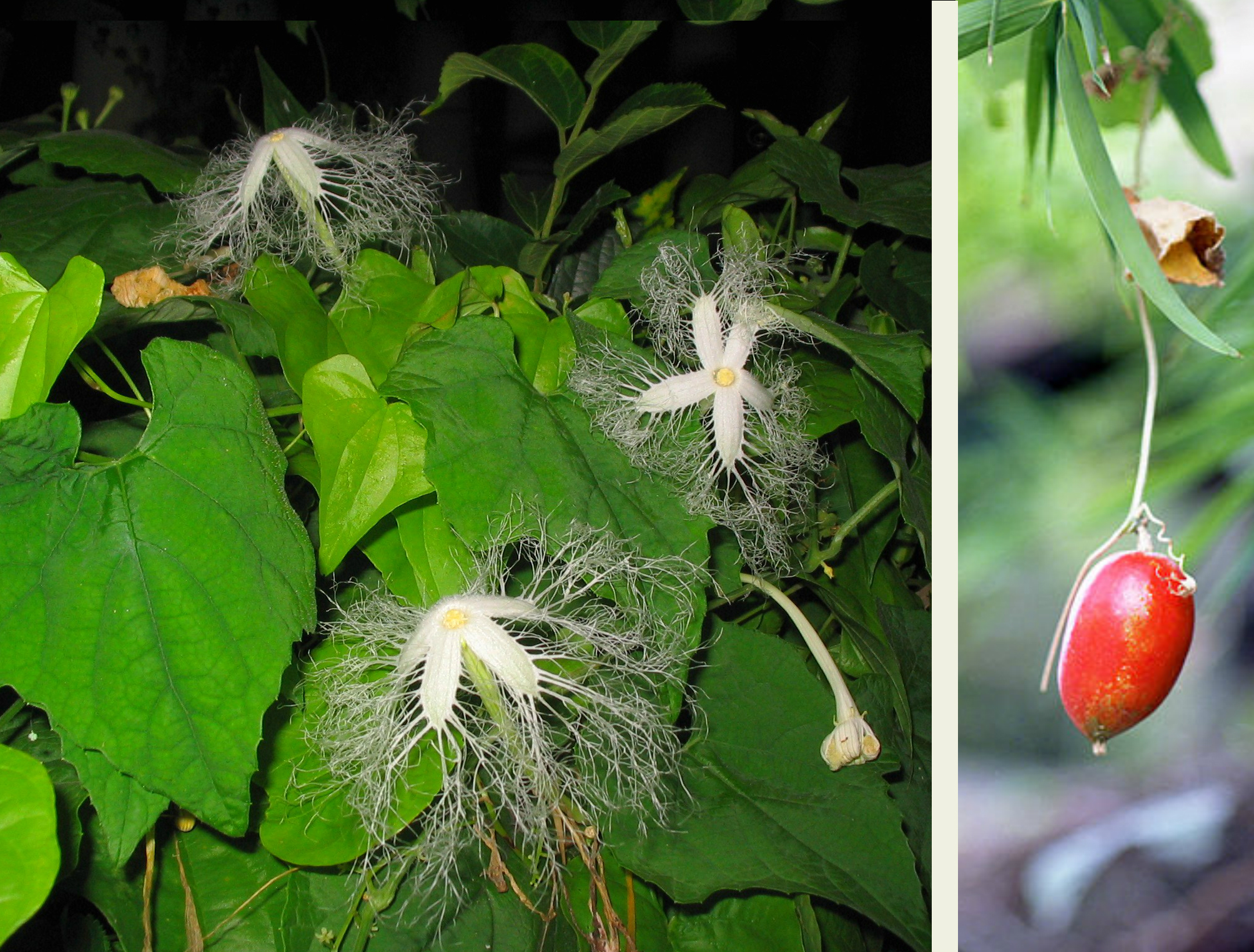 Trichosanthes ovigera (= T. cucumeroides, = T. pilosa), habit and flowering at night (left), mature fruit (right).